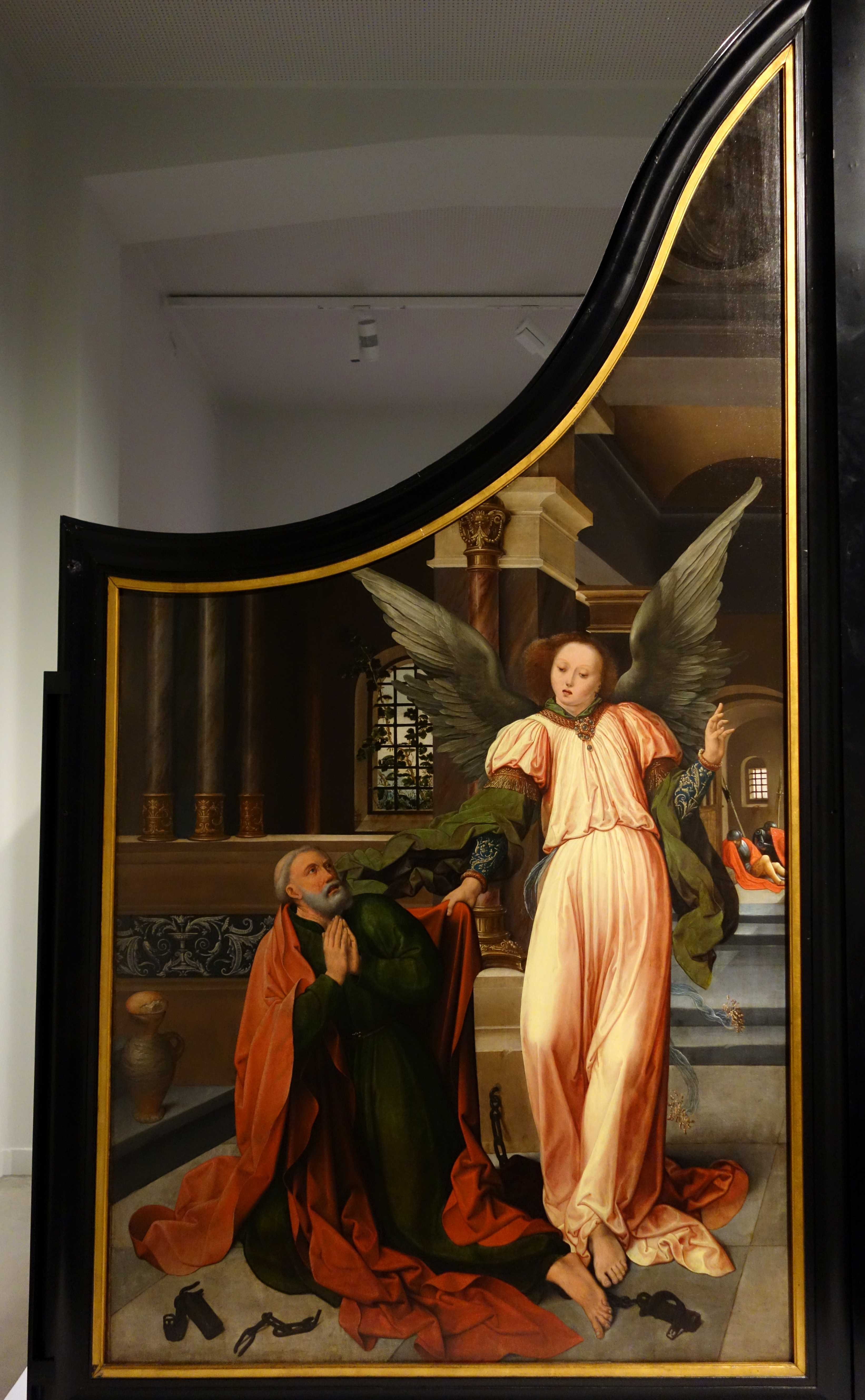 Exhibit in the Museum M - Leuven, Belgium. This artwork is in the public domain because the artist died more than 70 years ago.